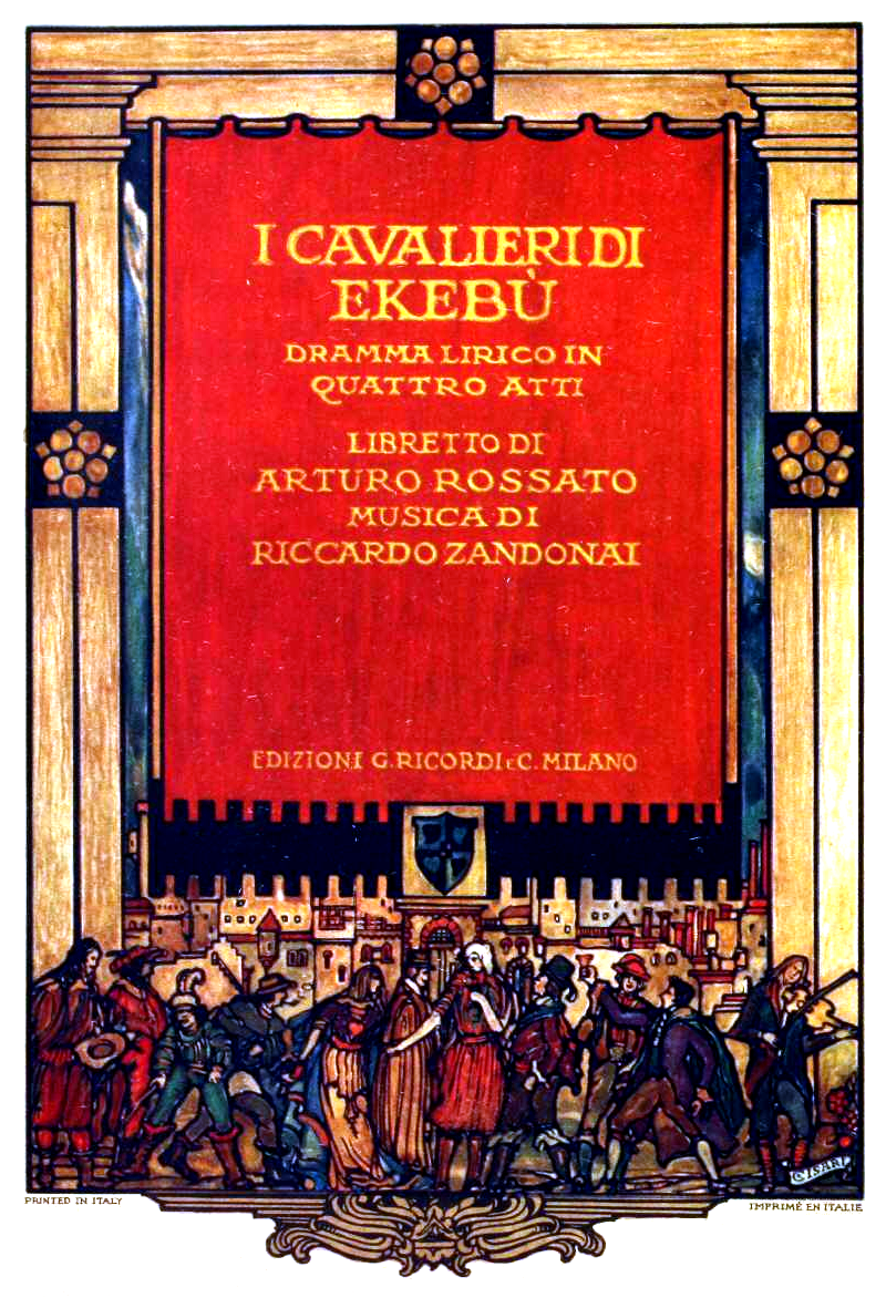 Riccardo Zandonai - I cavalieri di Ekebù - cover of the libretto - Milan 1925